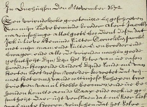 Letter of Cornelisjen Jacobs to Alert Jacobsz., 1672. Part of the Collection Dutch Sea Mail (Prize Papers / Sailing Letters) (National Archive Kew). Archive: Admiralty Court. Loot of a hijacked ship during the Anglo-Dutch Wars.